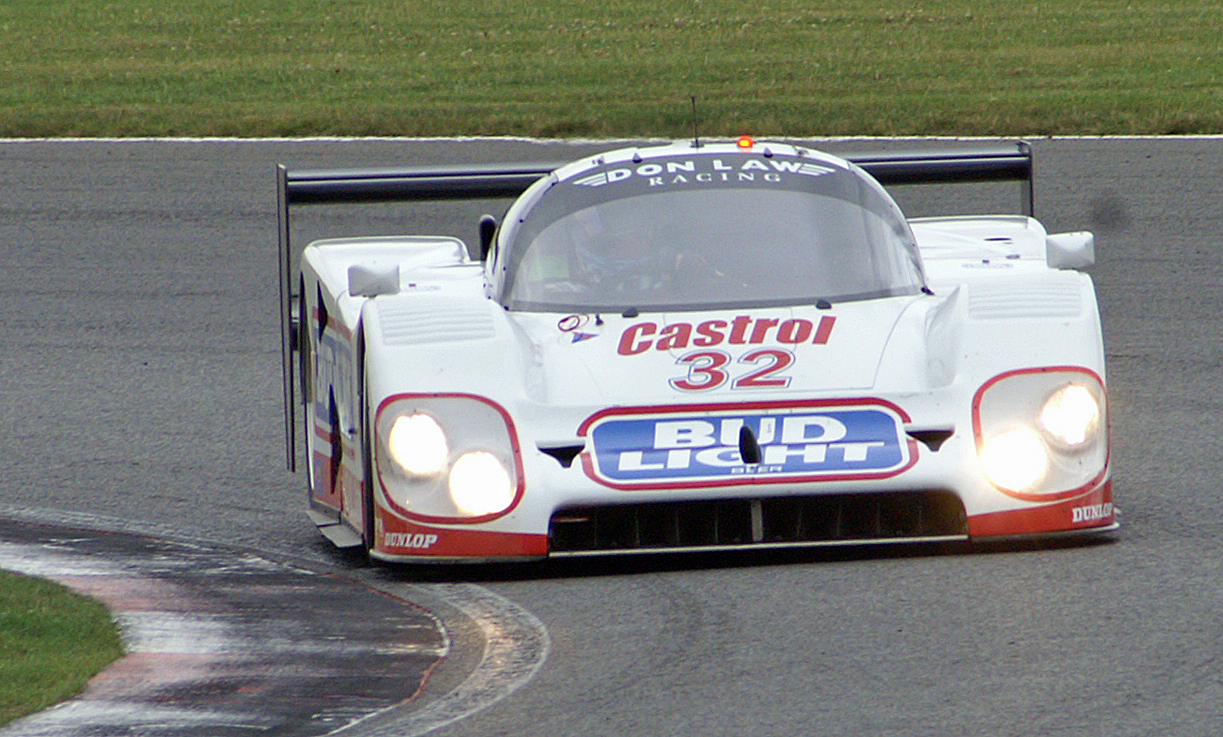 XJR 12 Bud Light at Silverstone 2009